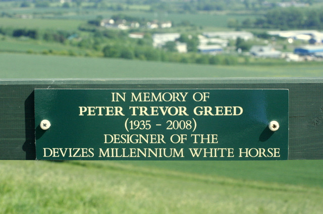 Memorial to Peter Trevor Greed Designer of the Devizes Millennium White Horse. - "This is the newest of the Wiltshire white horses. Designed by Peter Greed, it was cut by around two hundred local people in 1999 to mark the millennium. It is on Roundway Hill to the north of Devizes, overlooking the village of Roundway. This horse is the only one in Wiltshire, and one of only four in Britain, to face to the right." The above was copied from